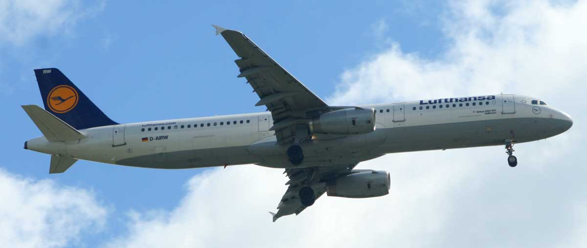 Lufthansa Airbus A321-100 Heilbronn landing at Vilnius airport (VNO) Information: ModeS: 3C6657 Reg: D-AIRW Typecode: A321 Type: Airbus A321-131 Serial number: 699 Airline: Lufthansa